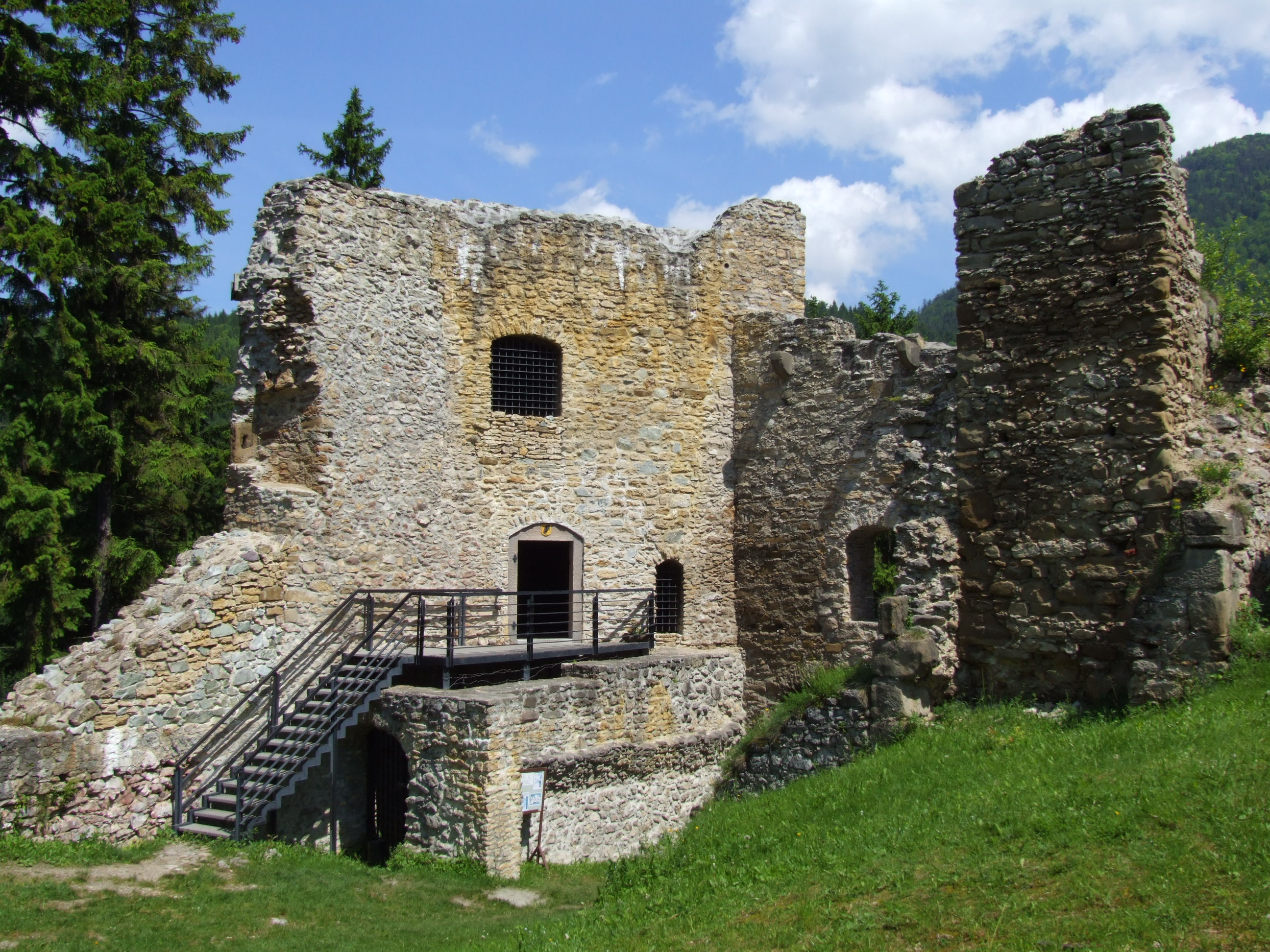 Likava Castle in the village Likavka, Slovakia